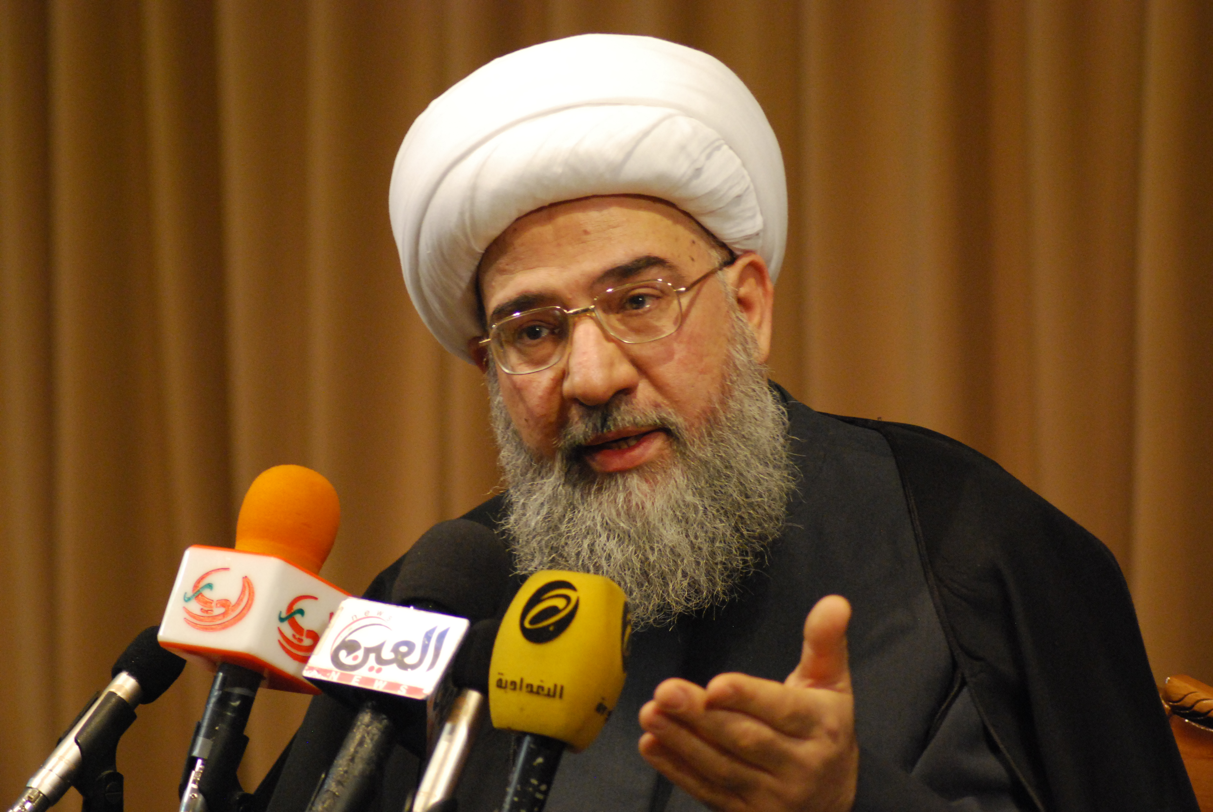 Iraqi Shia cleric Fadel al-Maliki